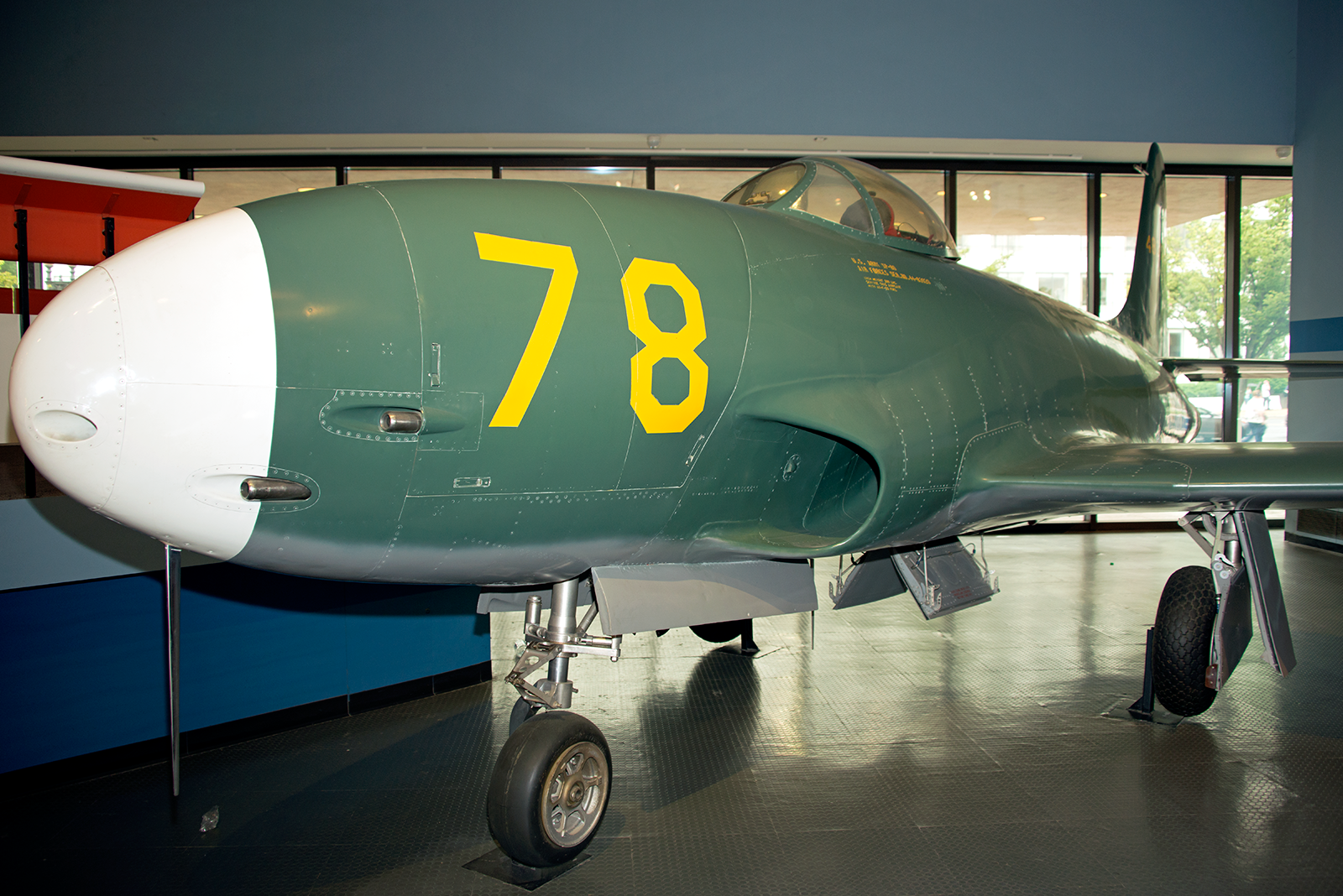 Lockheed XP-80 "Lulu-Belle" at the National Air and Space Museum, Washington, D.C.